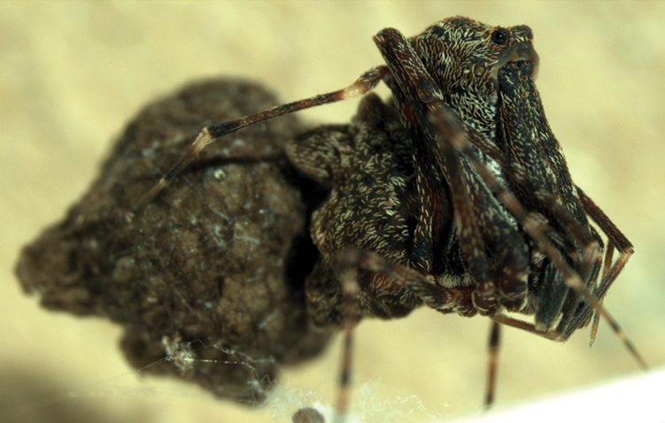 Austrarchaea griswoldi from Eungella National Park: female carrying egg-sac